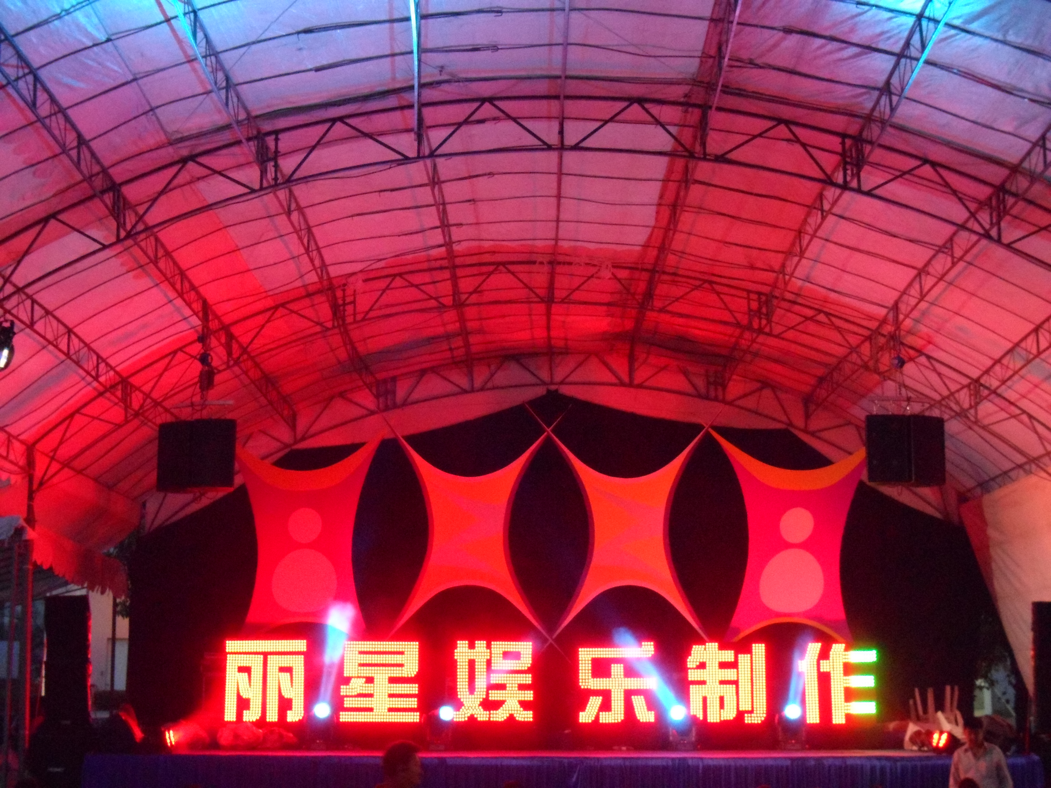 A getai stage in Singapore.